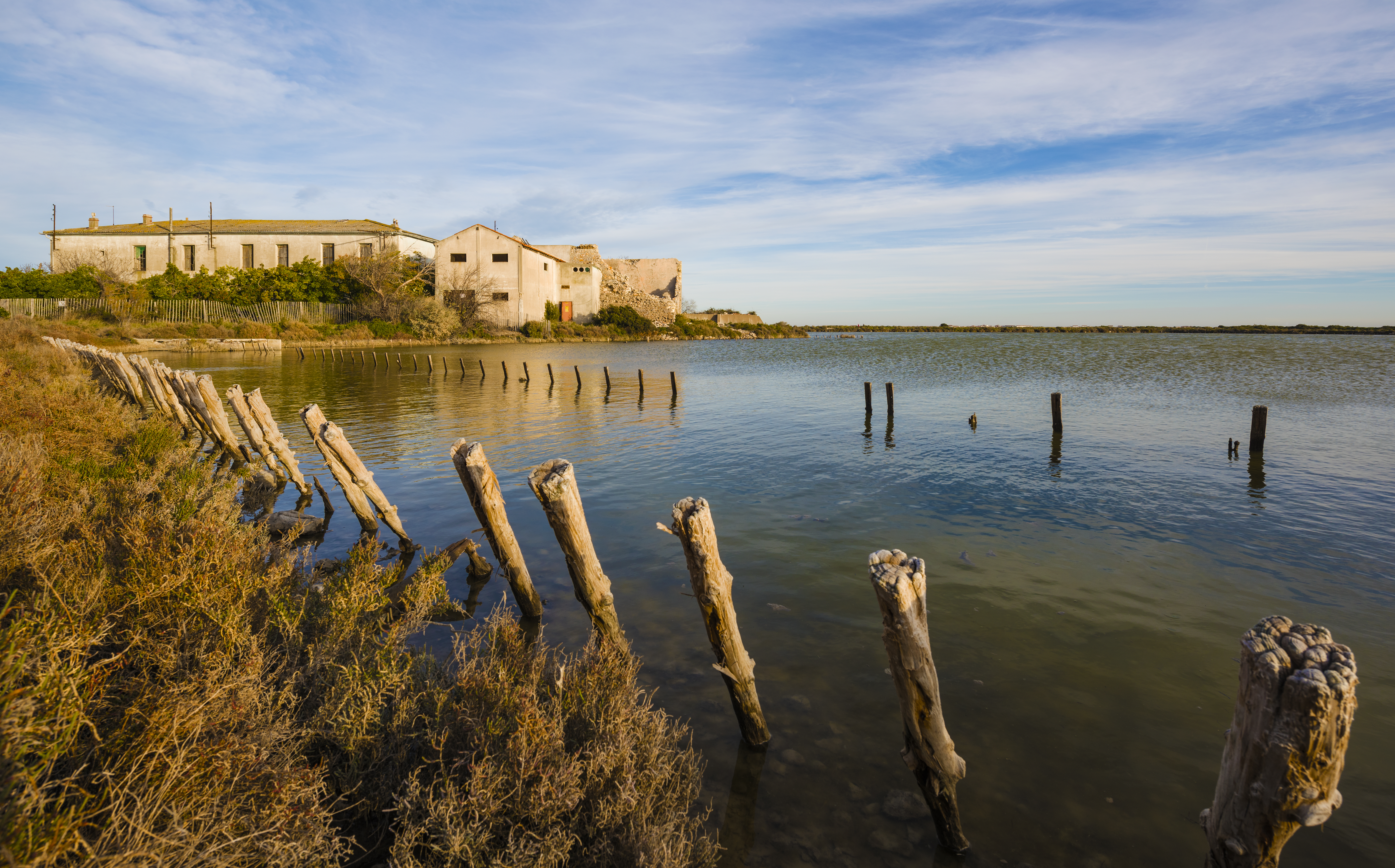 The disused buildings of the Salins de Frontignan (former salt factory closed since 1968). The place is now protected by the Conservatoire du littoral. Frontignan, Hérault, France.